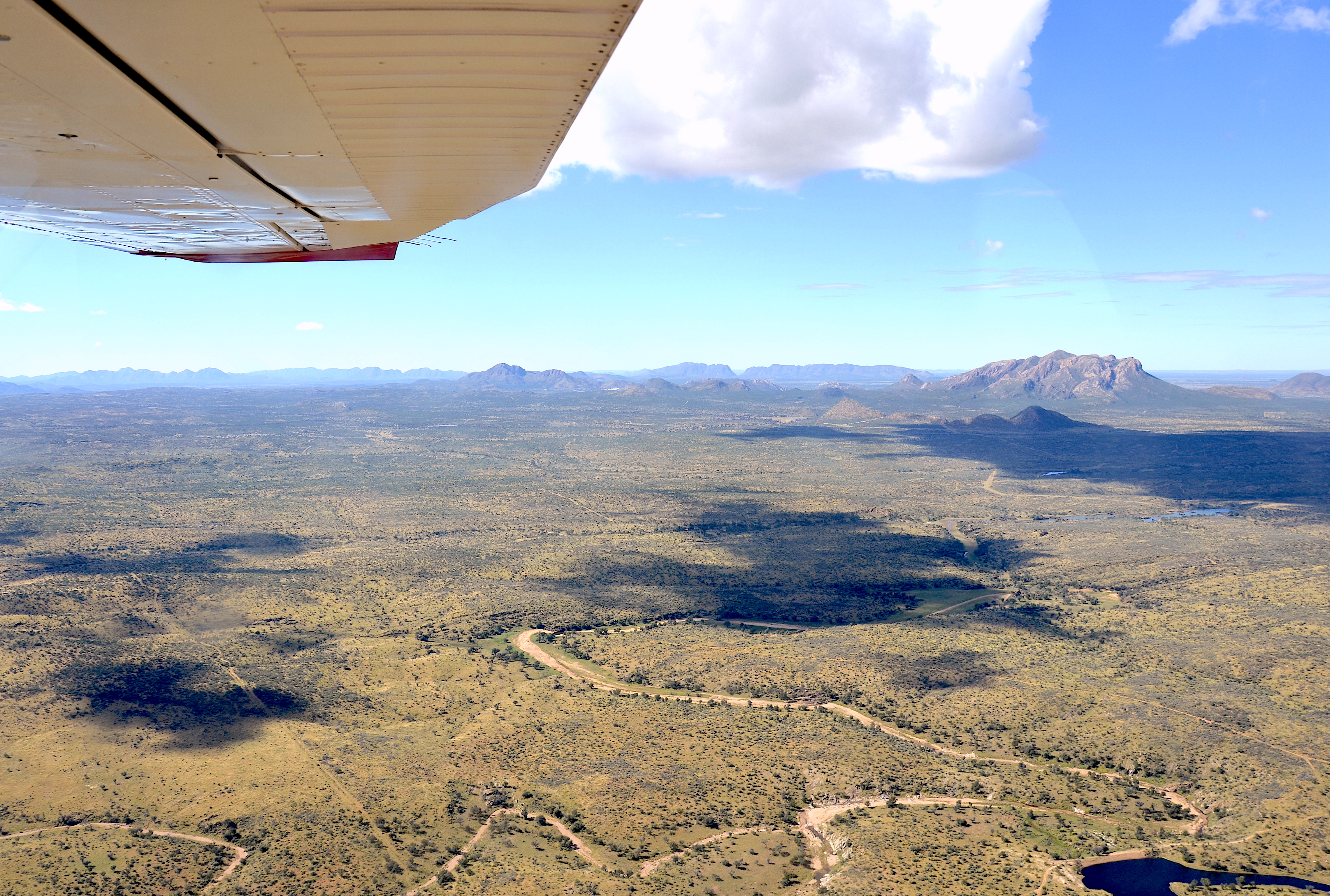 Billstein mountain in Namibia (2017)